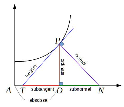 Leibniz's six functions and subtangent